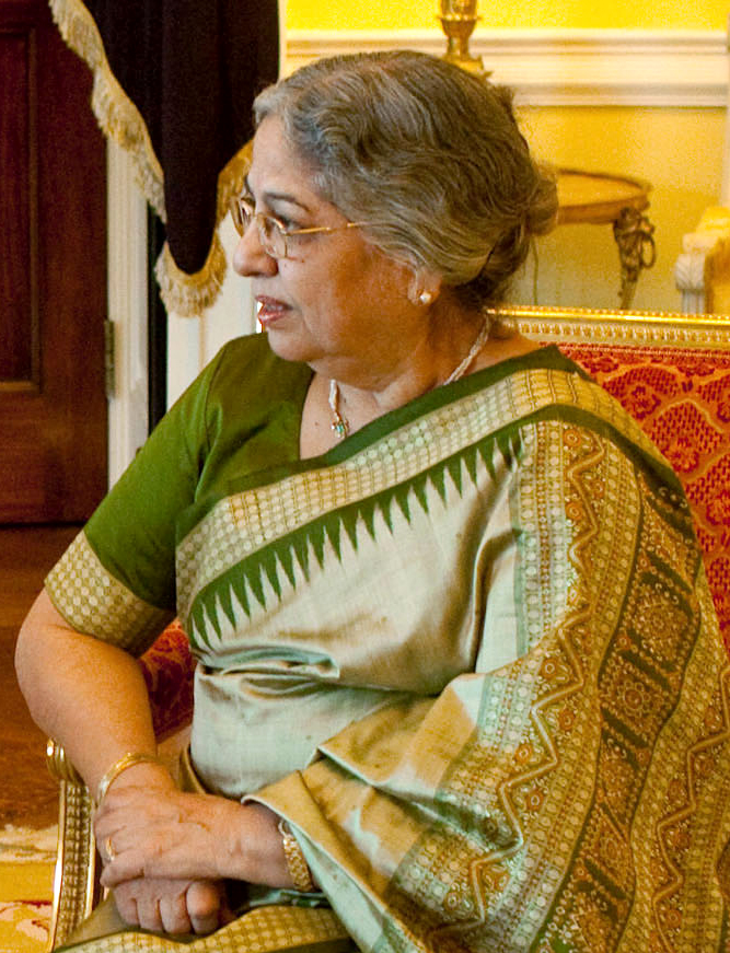 Gursharan Kaur in the Yellow Oval Room of the White House, Nov. 24, 2009.